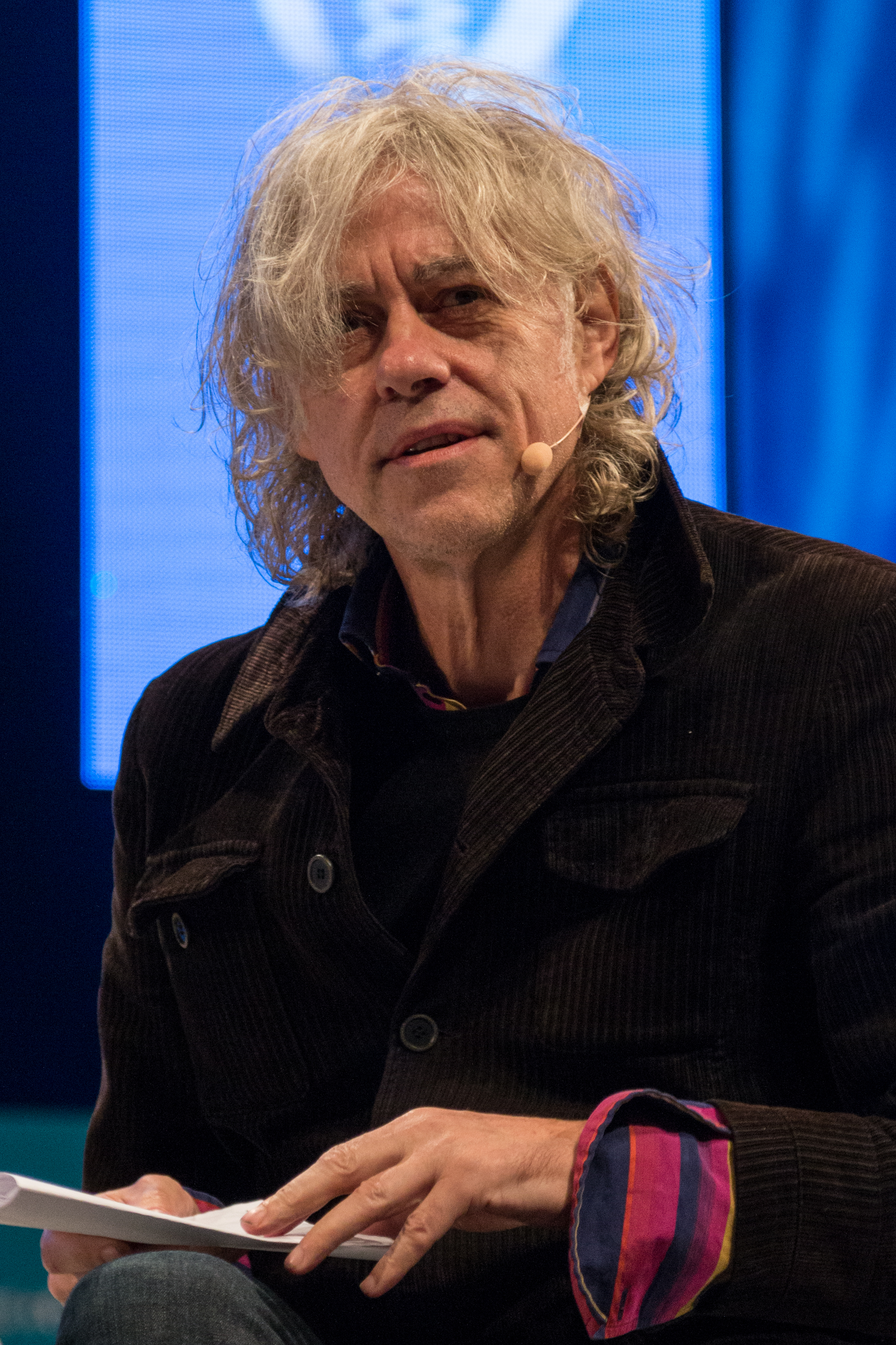 Bob Geldof at the 2014 One Young World Conference in Dublin, Ireland.